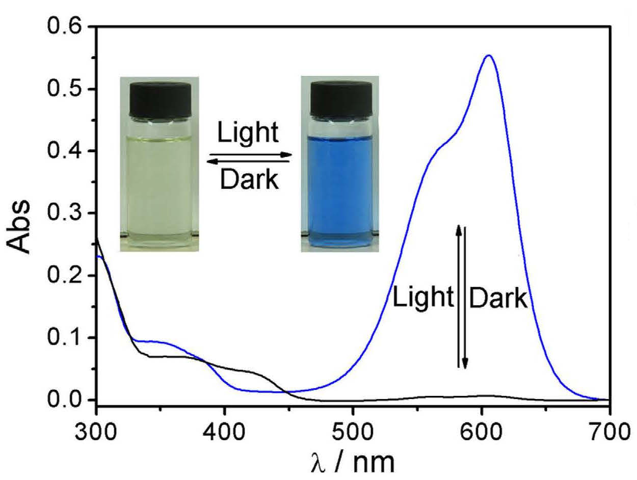 Visible color changes (inset) and the corresponding absorption spectra of crystal violet lactone salicylaldehyde hydrazone Zn(II) complex in DCM solvent